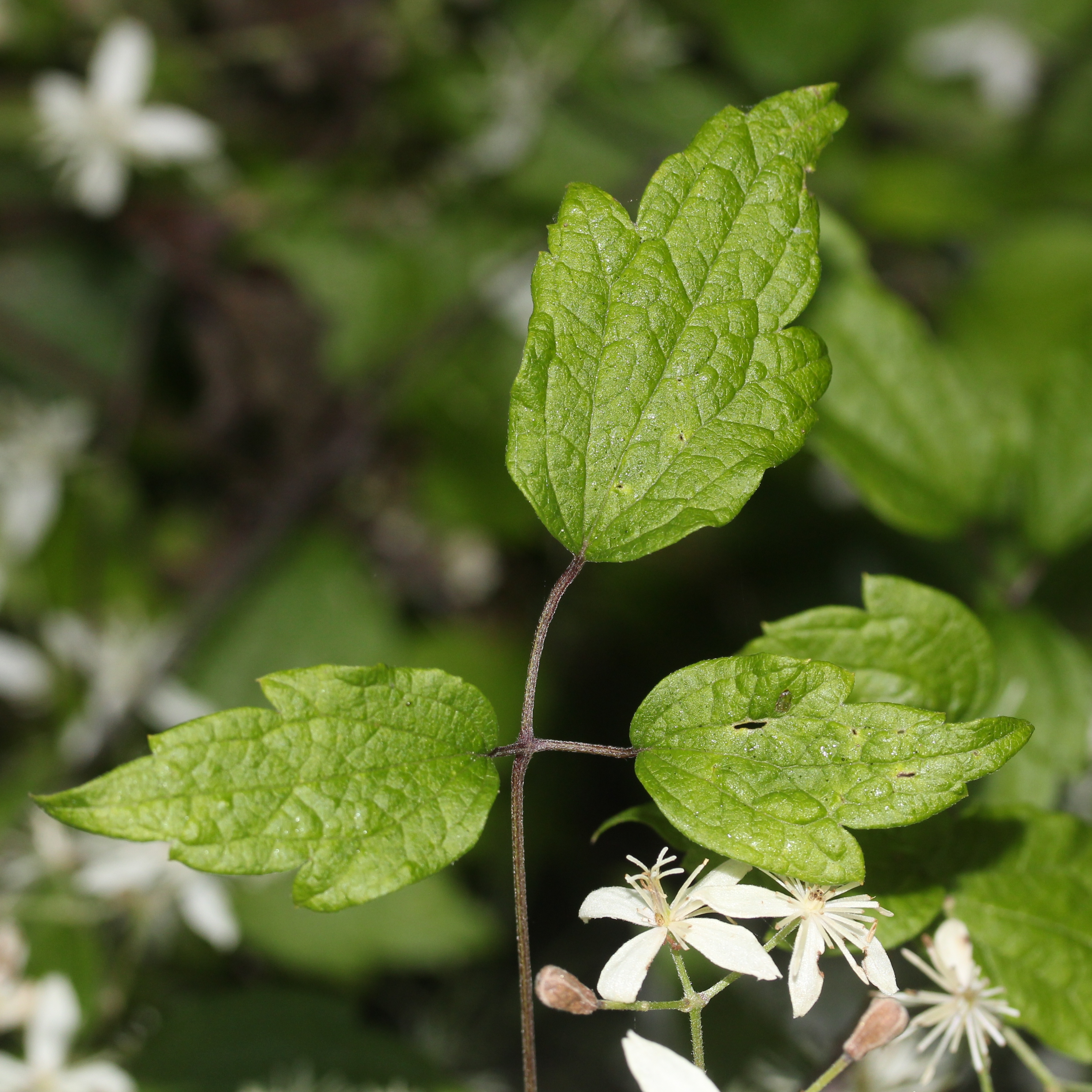 Clematis apiifolia in Takashima, Shiga prefecture, Japan.